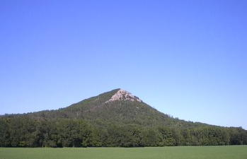 Pinnacle Mountain view